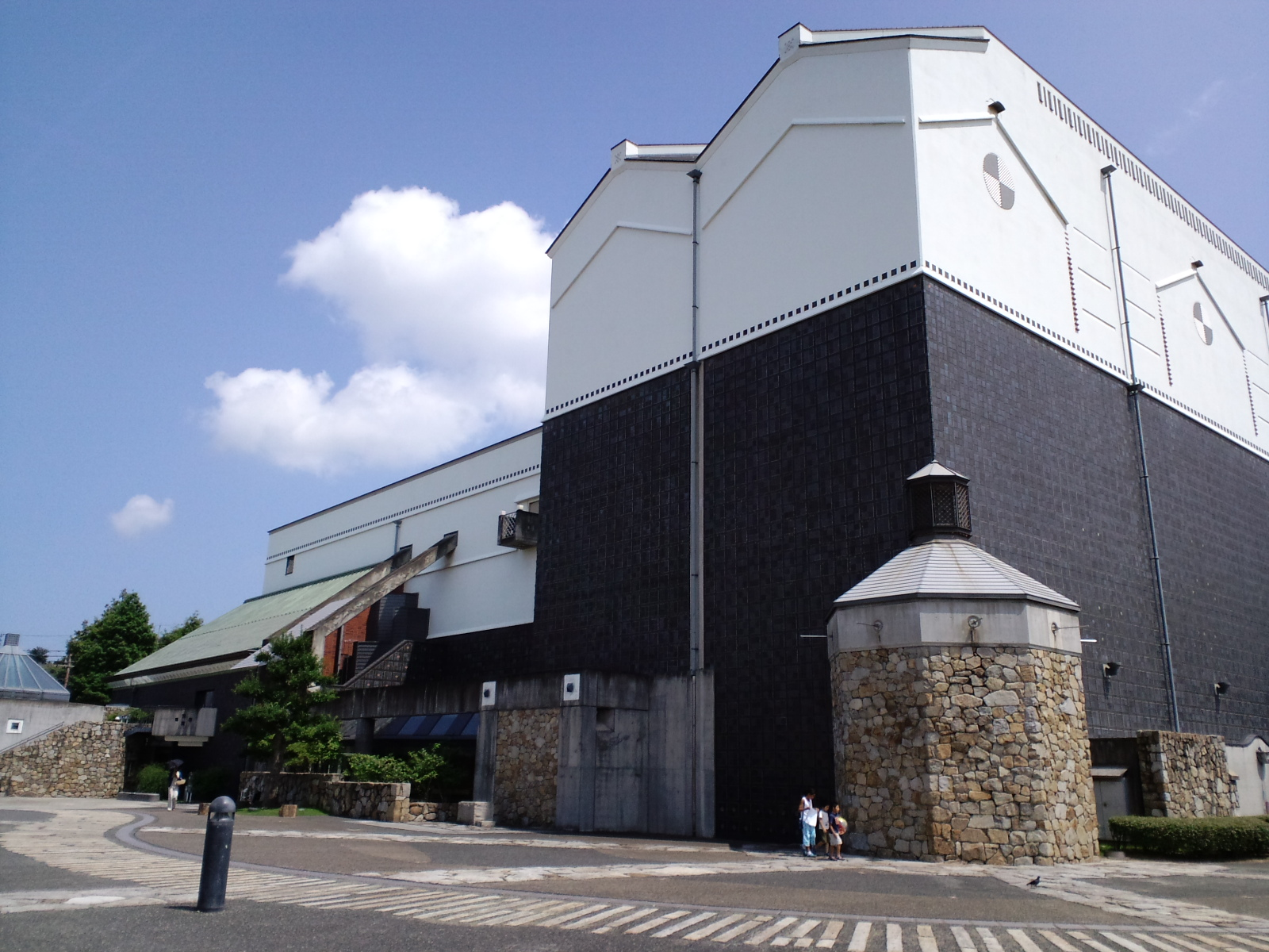 Kurashiki Geibunkan Public hall